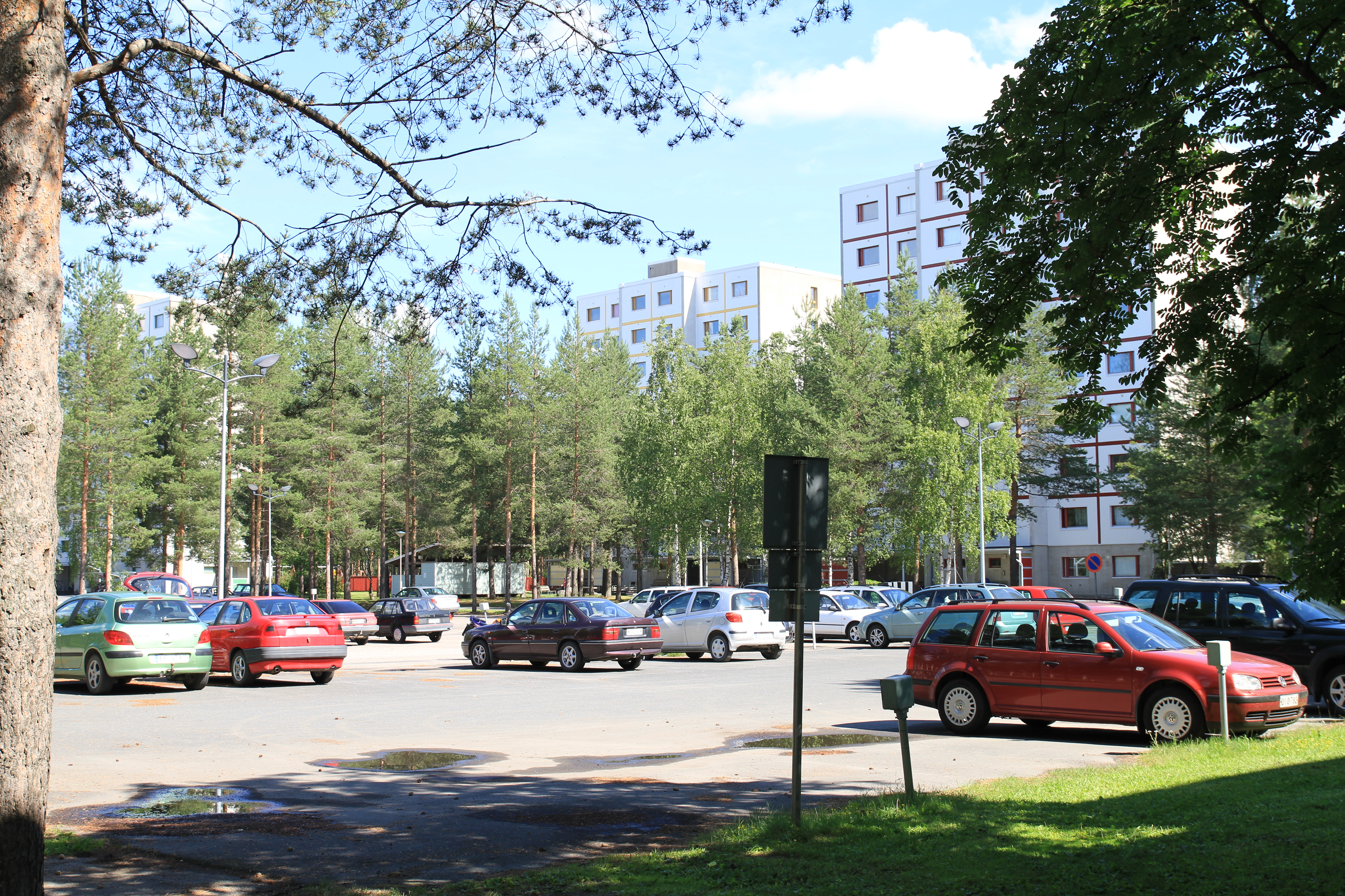 Student housing in Linnamaa, Oulu